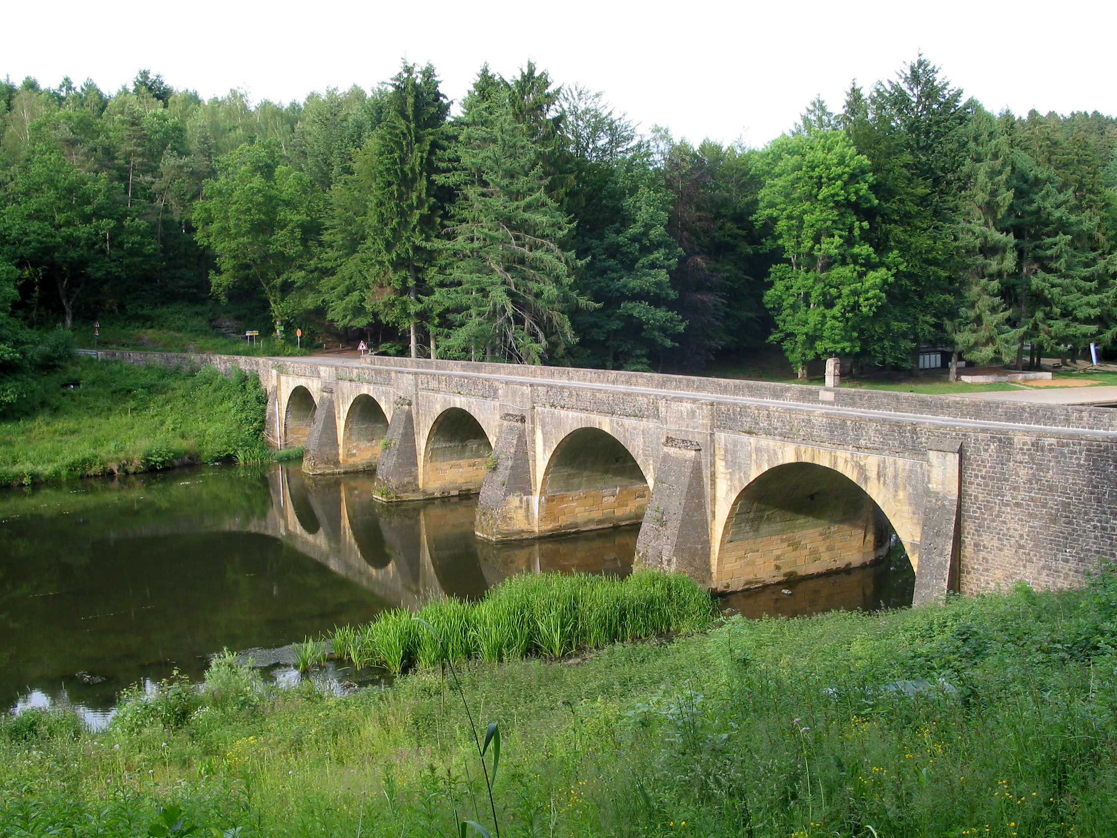 Chiny, Belgium: St. Nicolas bridge on the Semois river.